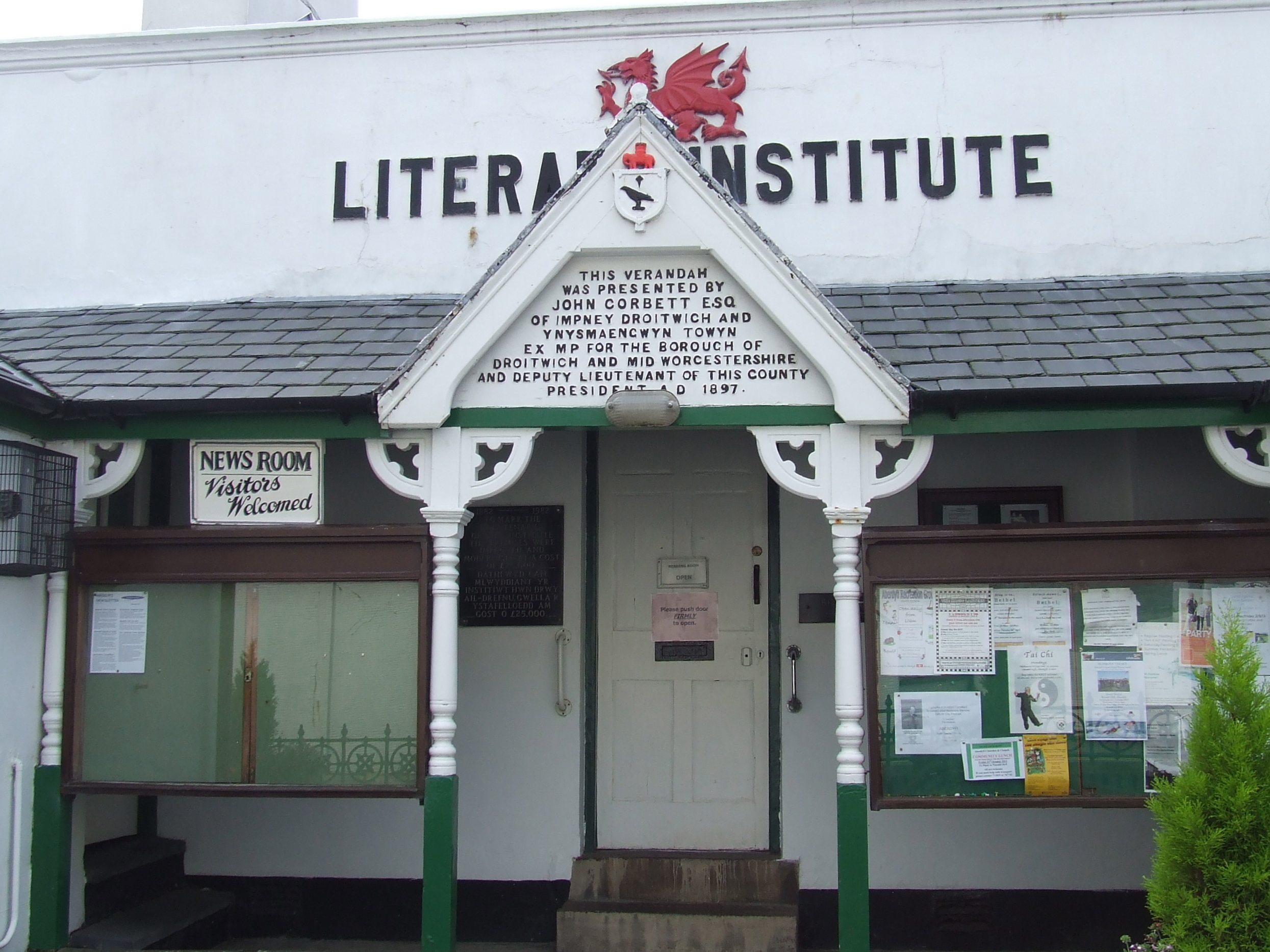 Dating from 1882, this building was originally used as a meeting place and bath house for the Plymouth Brethren. A verandah was added by philanthropist and industrialist John Corbett. Its reading room remains open today.